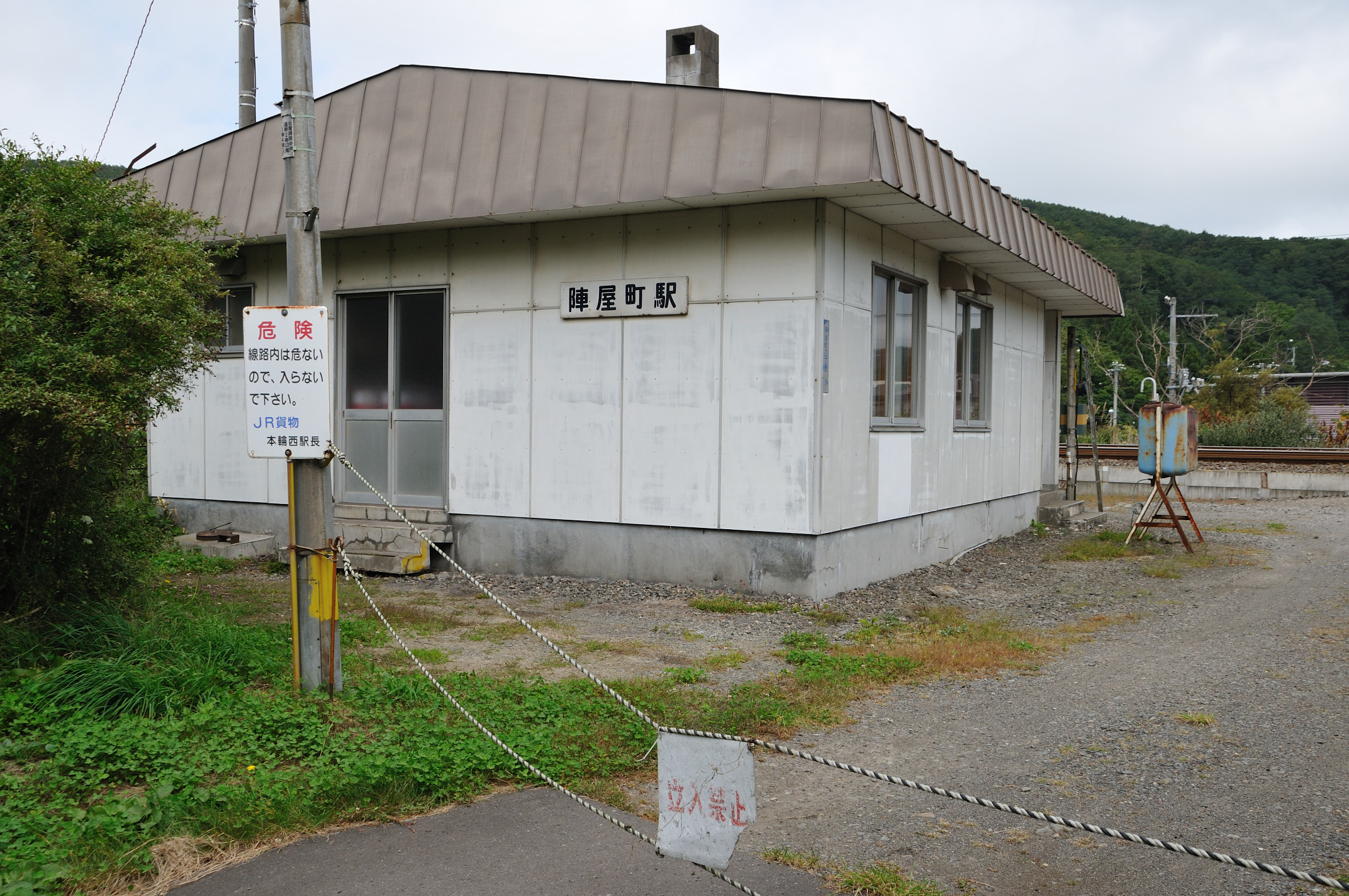 Japan Freight Railway Jinyamachi station, Muroran, Hokkaido, Japan